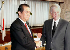 Ambassador Schieffer paid a courtesy call on Minister of Justice Kunio Hatoyama at the Ministry of Justice.